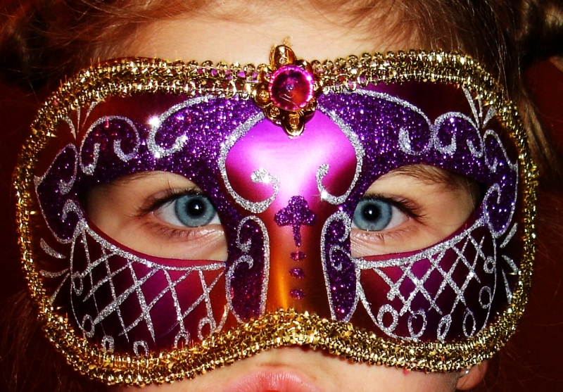 Sanok